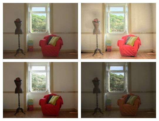 Open window with armchair and manequin. Sample scene for HDRI, tone mapped using different operators. In clockwise order: Reinhard (Photographic Tone Reproduction), Fattal (Gradient Domain HDR Compression), Mantiuk (A Perceptual Framework for Contrast Processing of High Dynamic Range Images), Reinhard (Dynamic Range Reduction inspired by Photoreceptor Physiology).